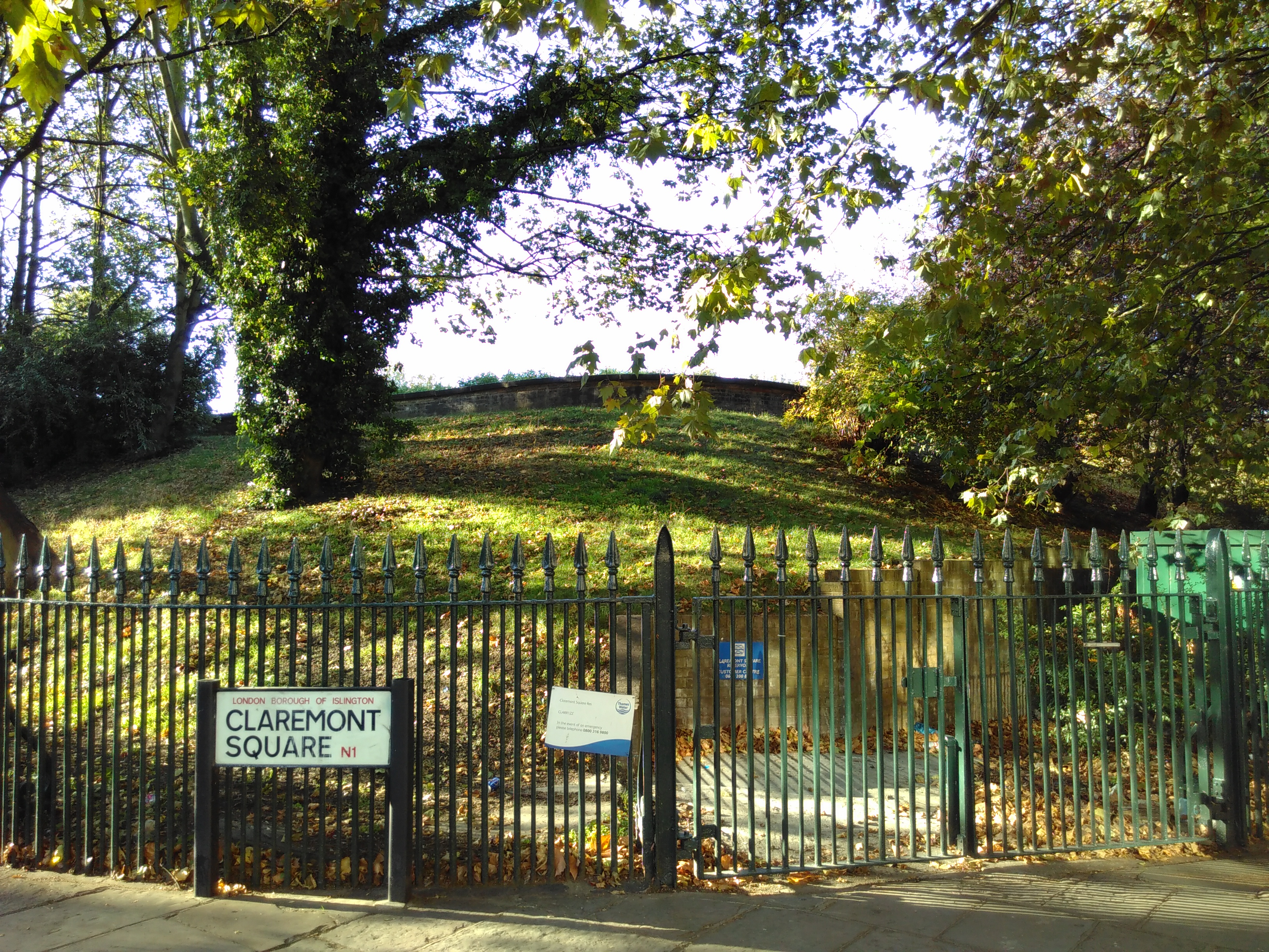 Claremont Square seen from the north eastern corner, October 2018